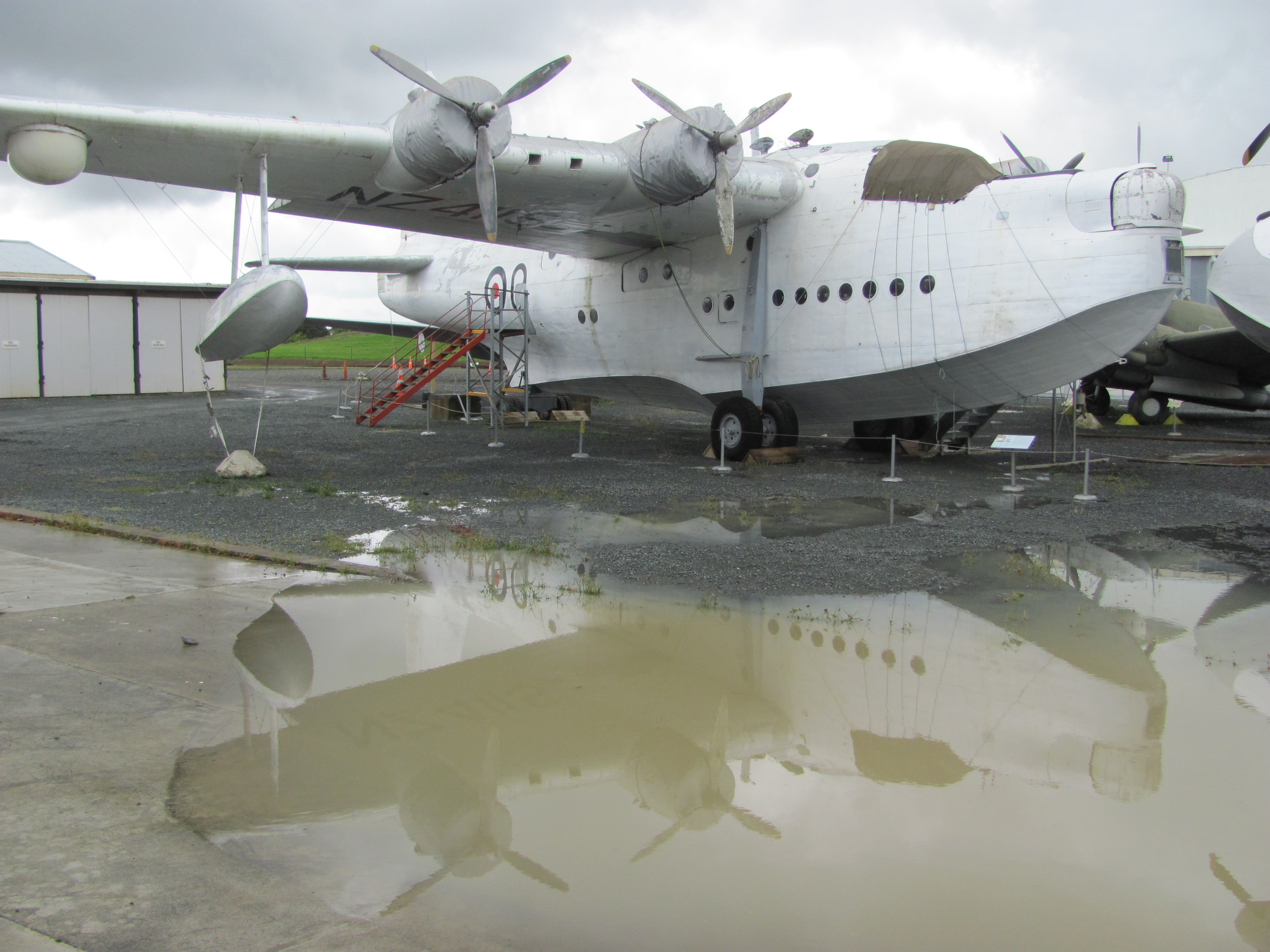 Short Sunderland at Museum of Transport and Technology, Auckland